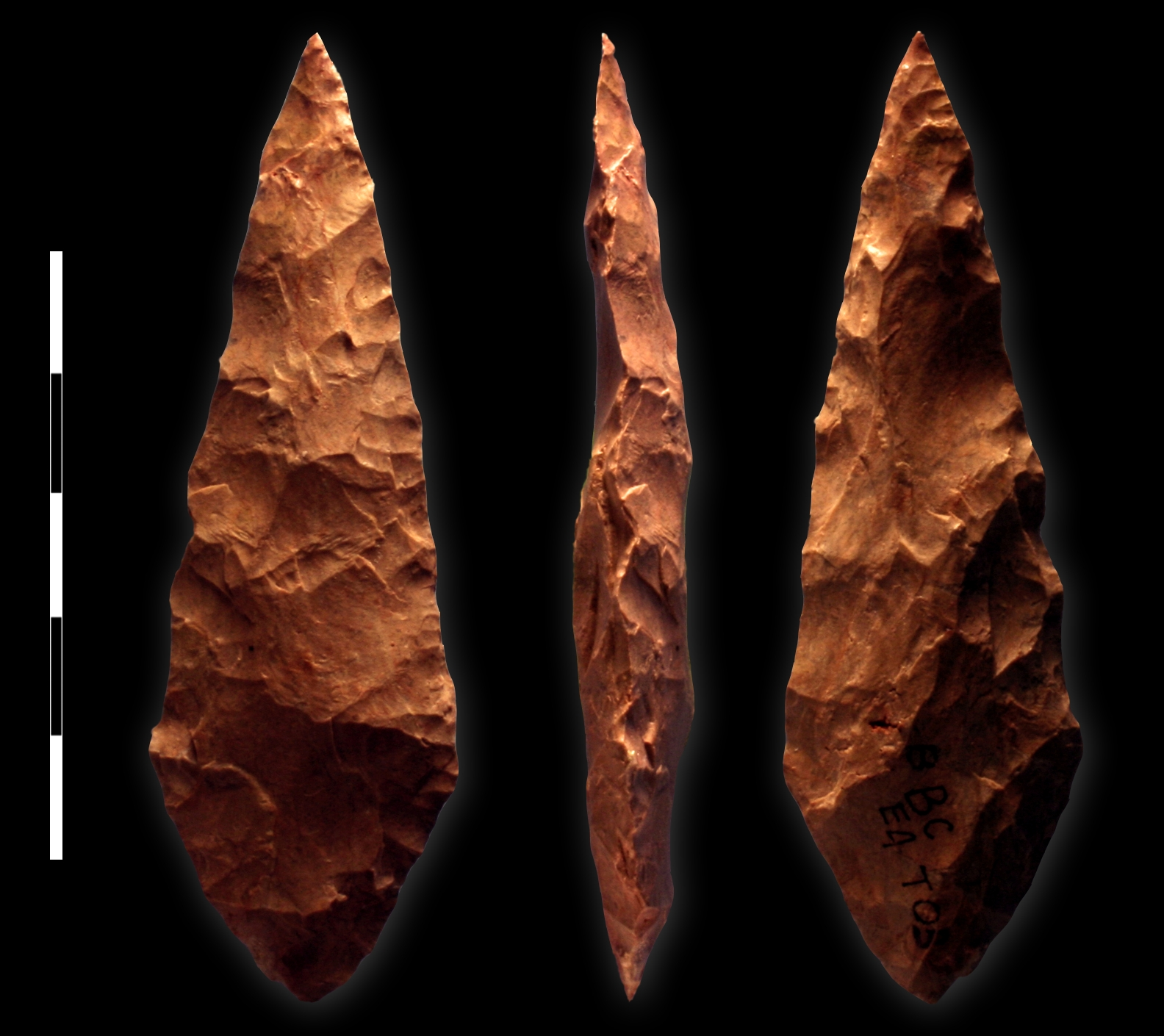 Bifacial silcrete point from M1 phase (71,000 BCE) layer of Blombos Cave, South Africa; scale bar = 5 cm